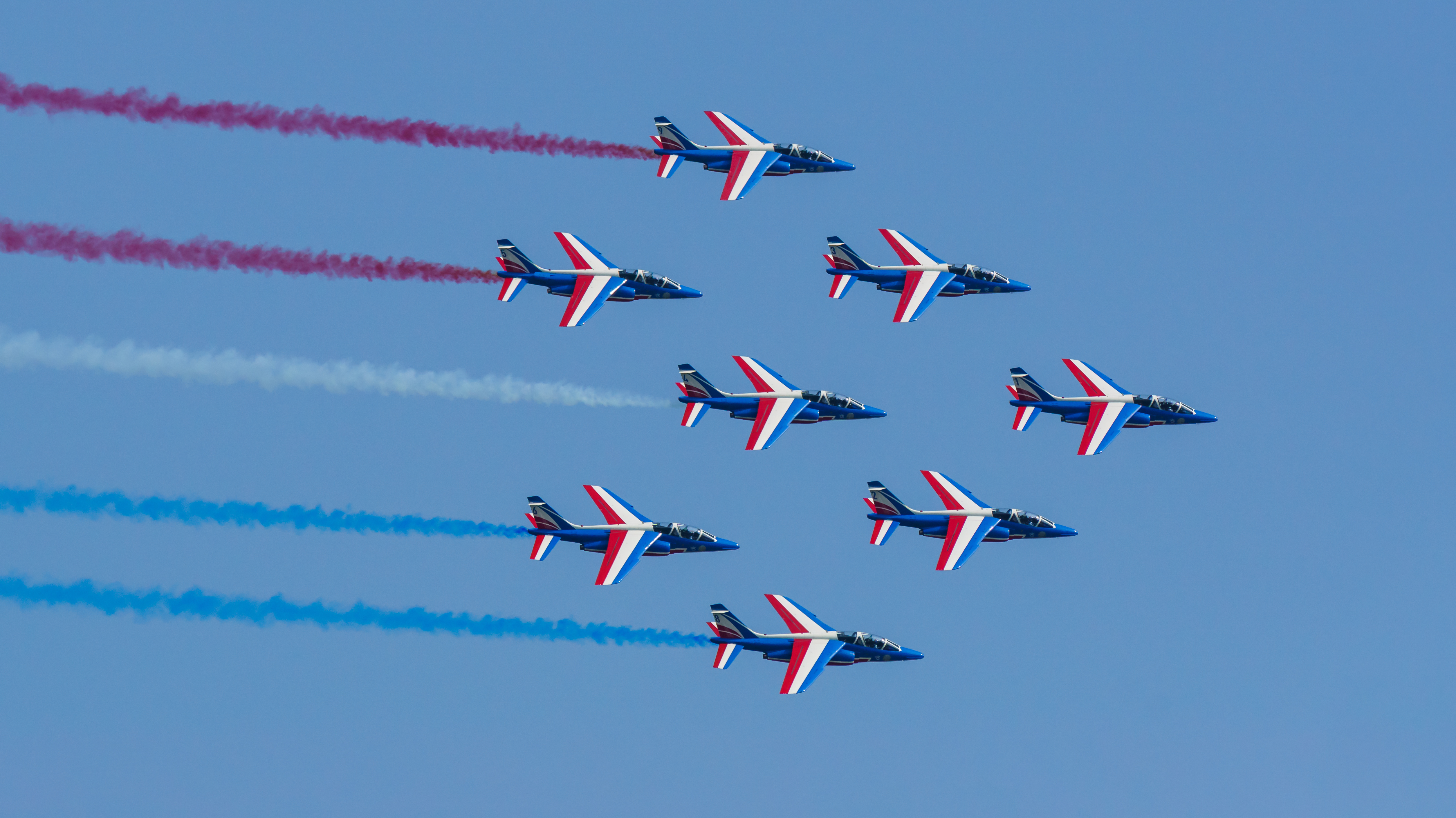 Dassault/Dornier Alpha Jets at Duxford Air Festival 2018.